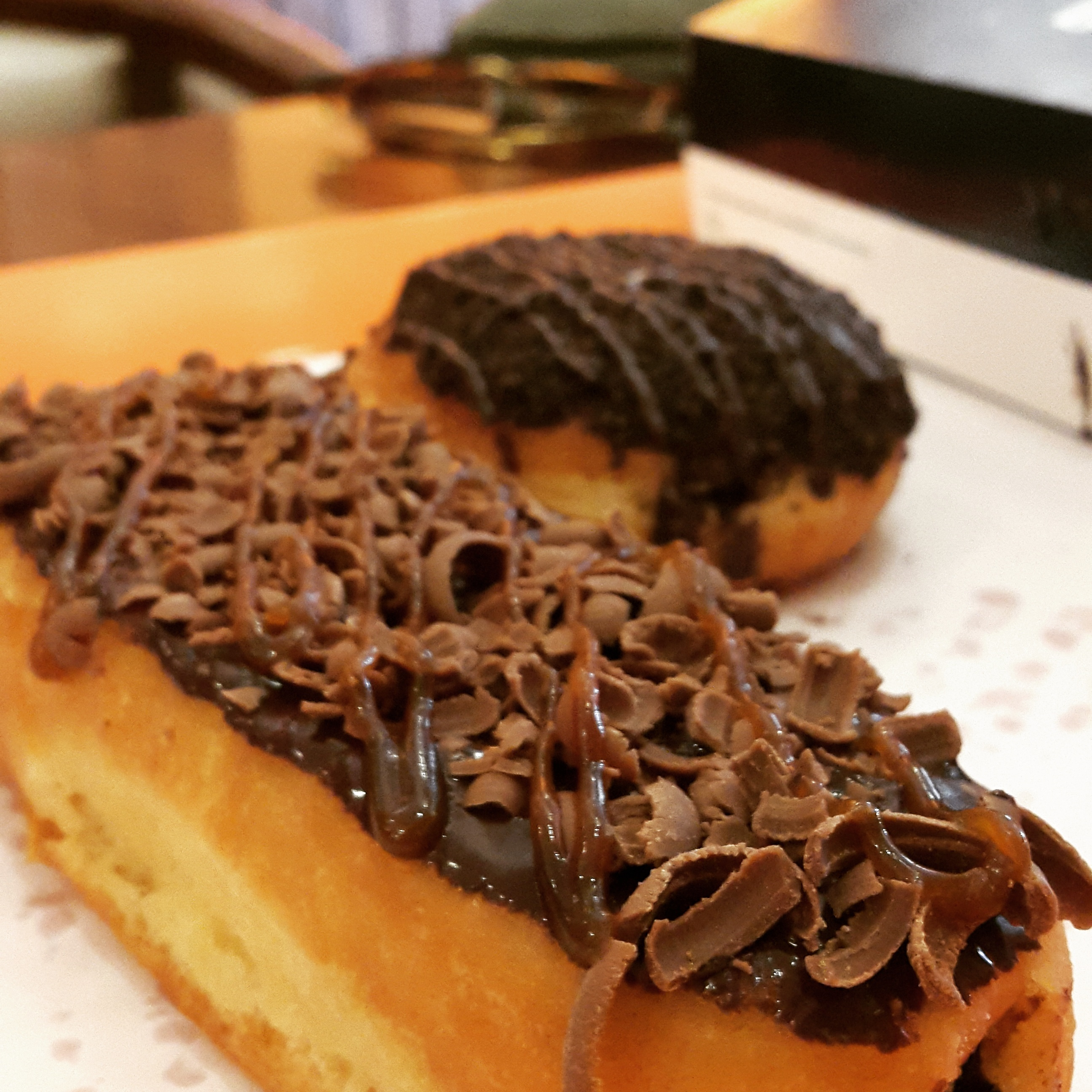 DONUTS!